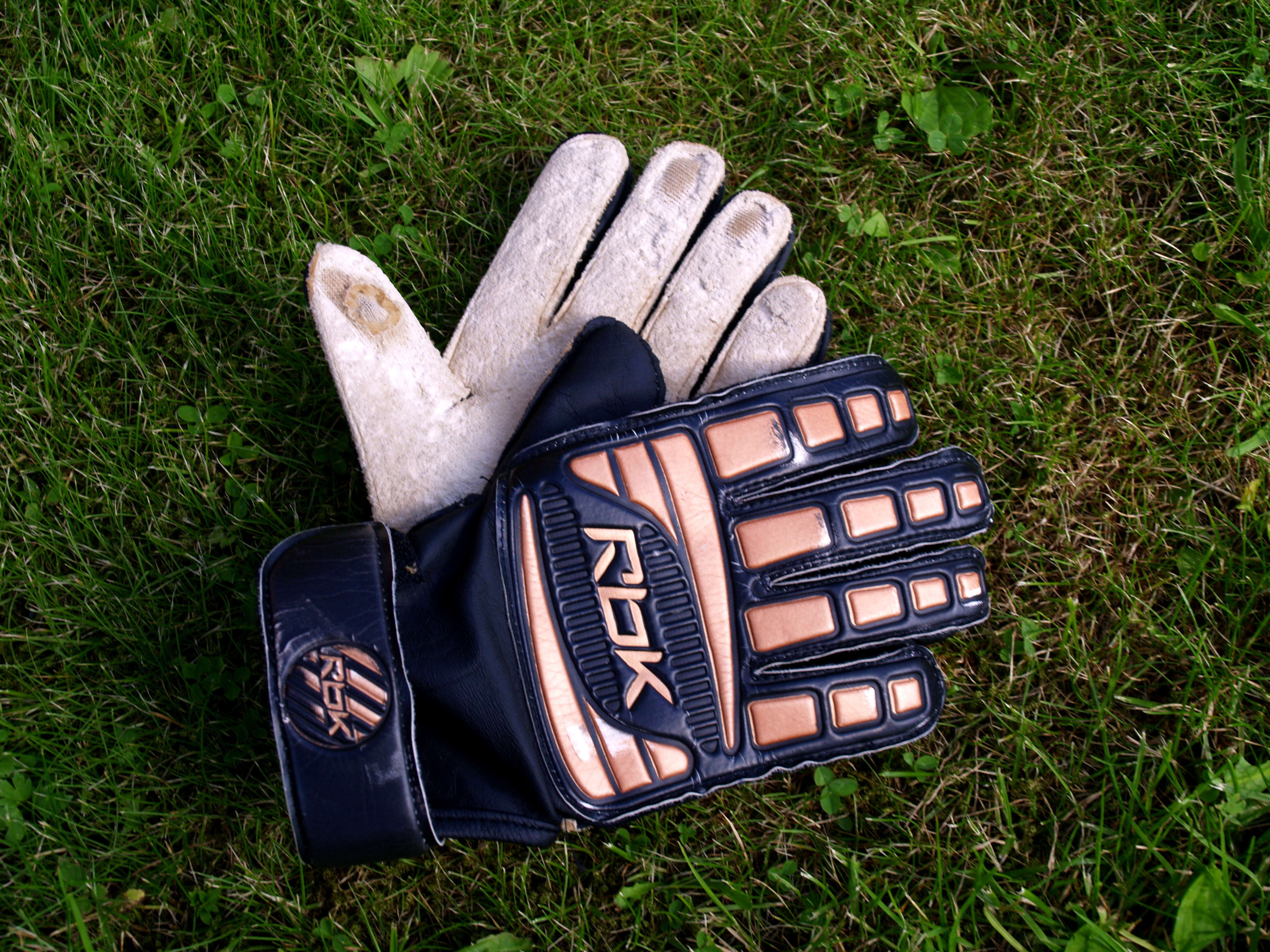 Reebok football goalkeeper gloves.